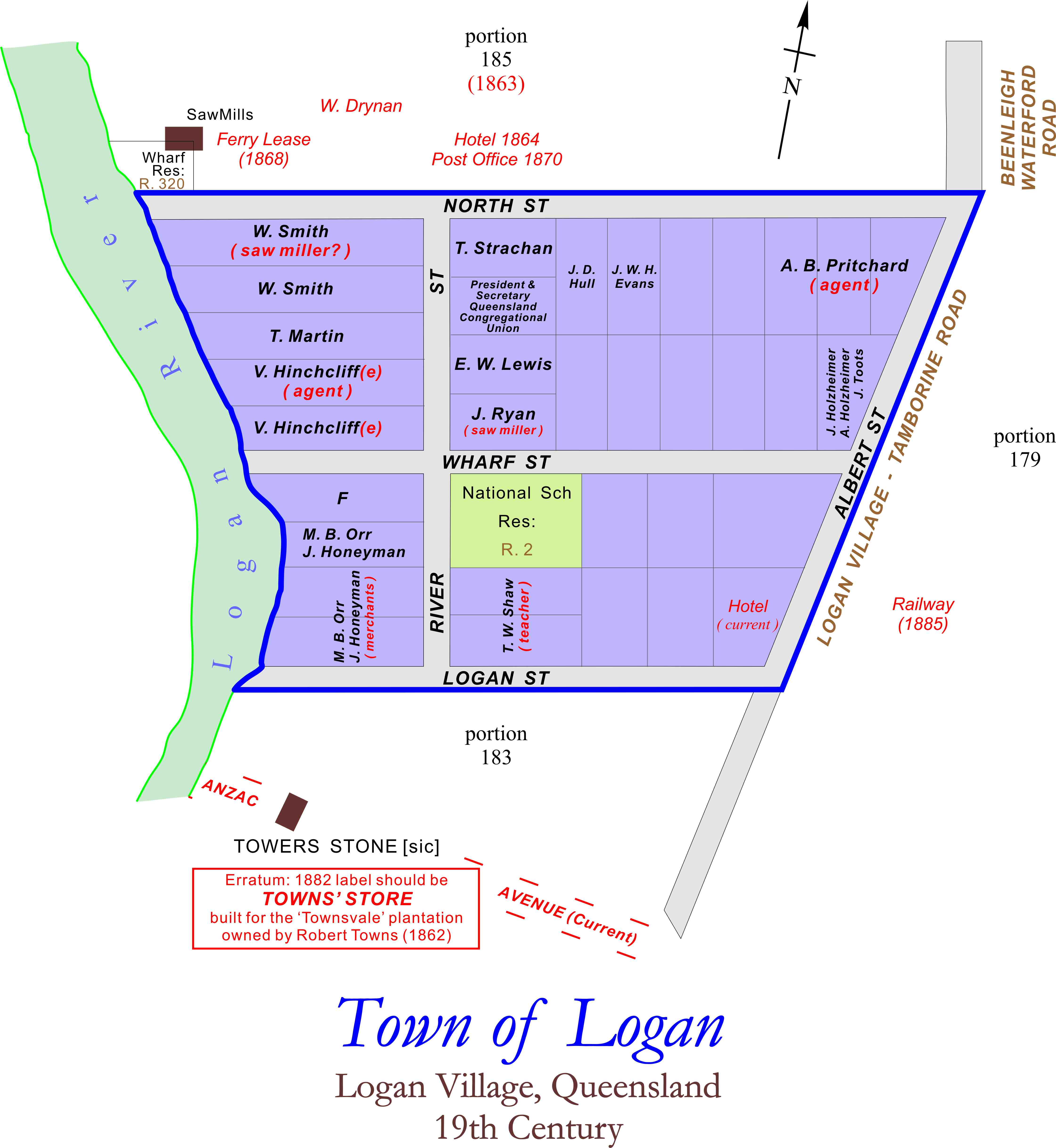 A map of the township at Logan Village, Queensland, Australia in the 19th Century.